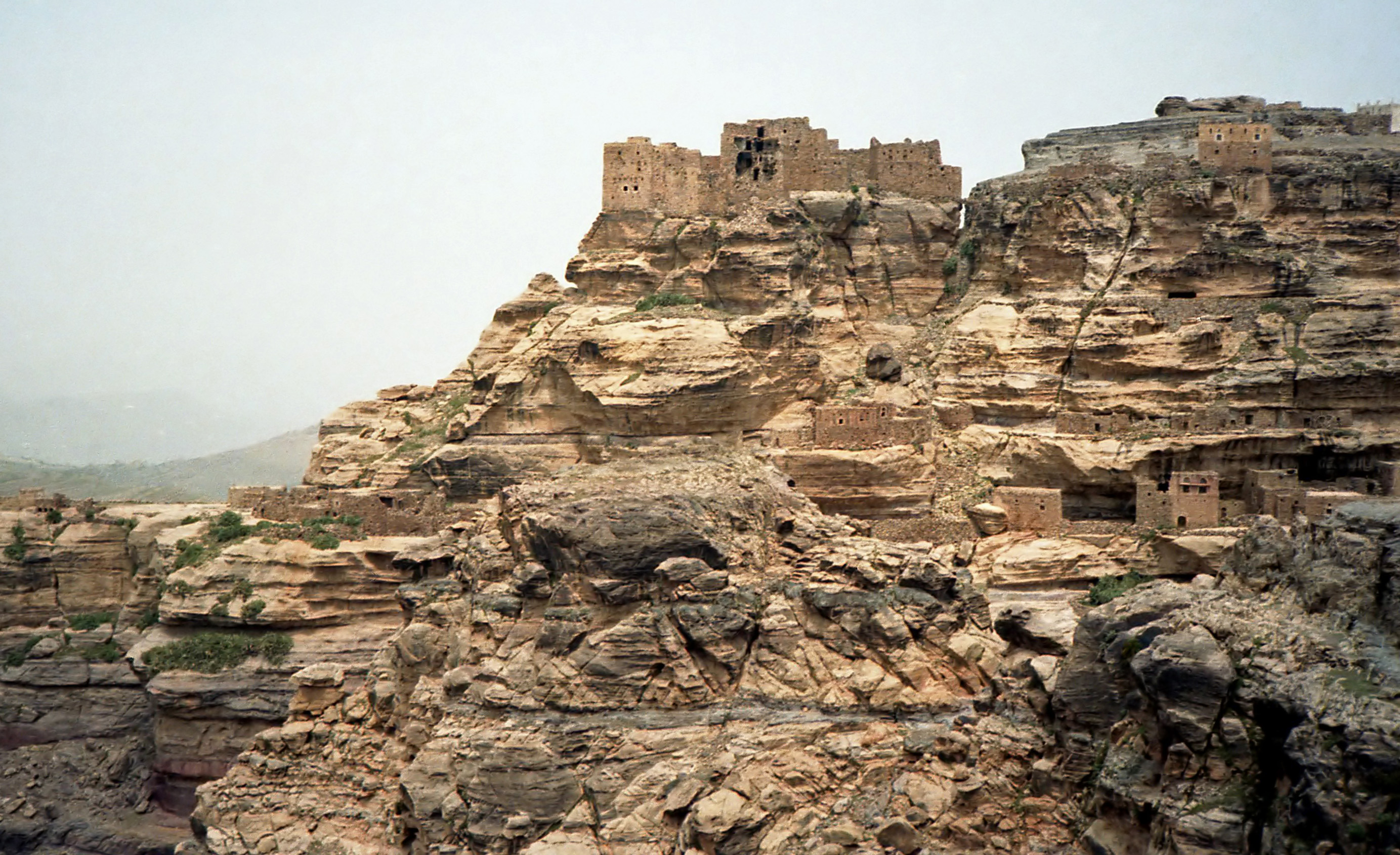 Near Kawkaban, Yemen